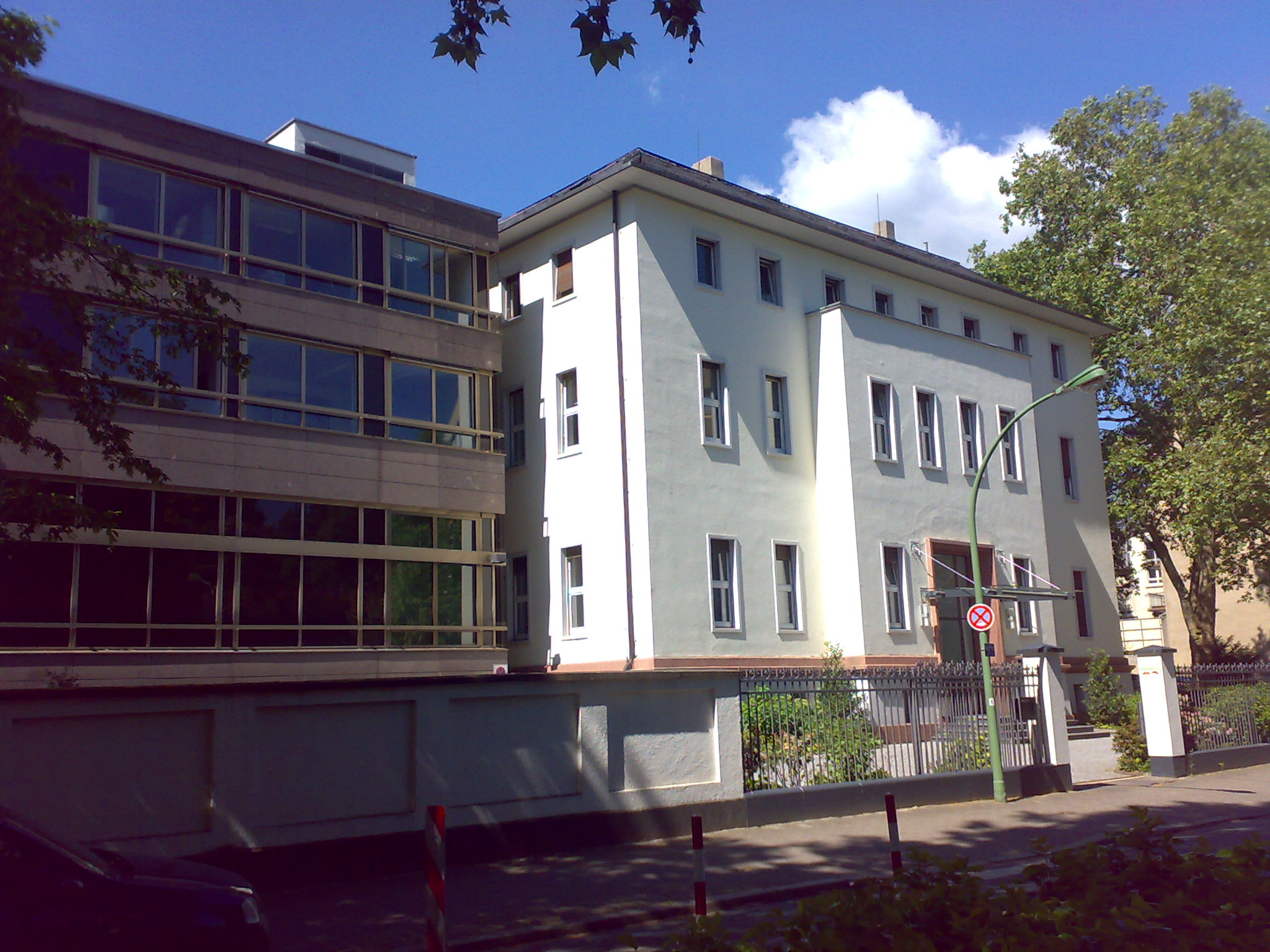 Former Headquarter of the "Verband der Automobilindustrie", Frankfurt am Main, Germany